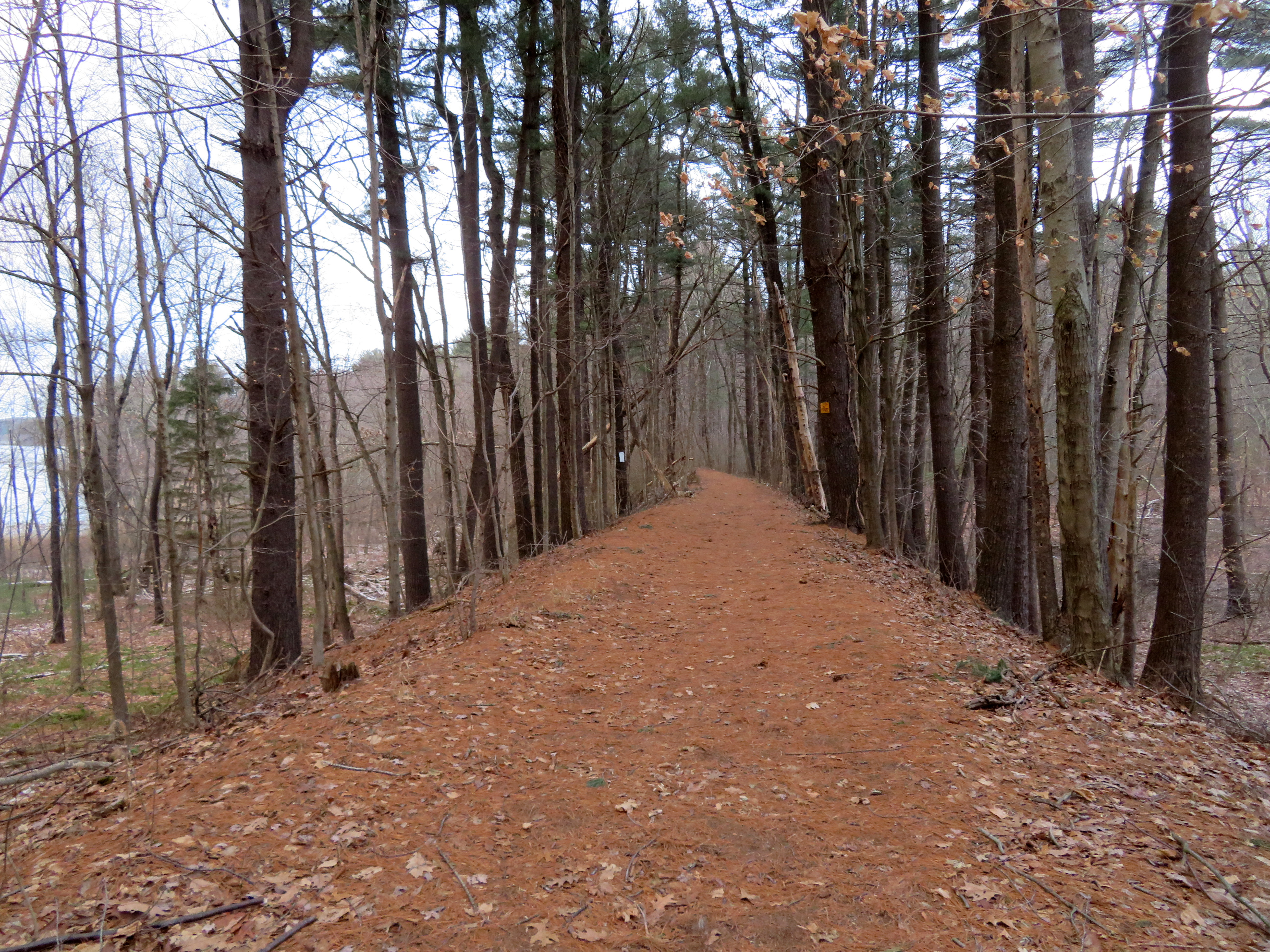 Section of the Shenipsit Trail along the former Stafford Springs Street Railway right-of-way in Rockville in December 2018